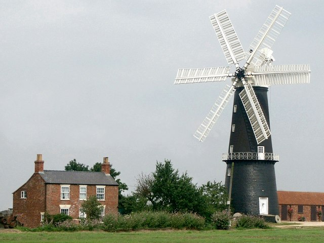 Sibsey Trader Mill, Sibsey. This restored six-storey mill with complete gear, sails and fantail still works today, but shortly after this recent restoration two of the sails blew off (see 626199).